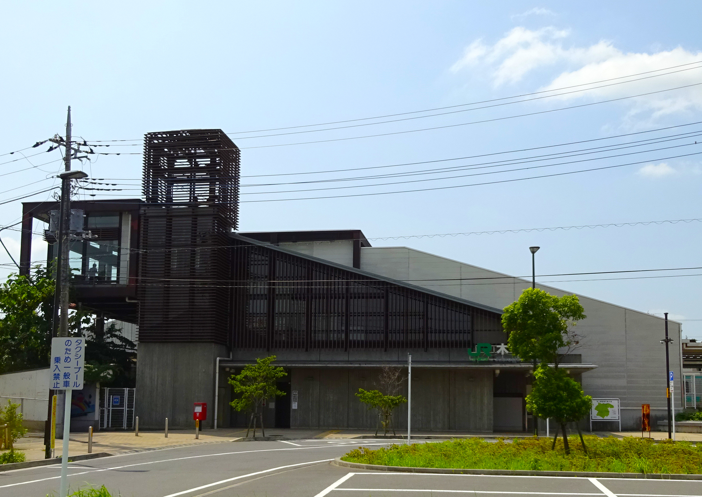 North entrance of Kioroshi Station